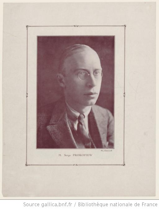 Sergei Prokofiev (1891 – 1953)